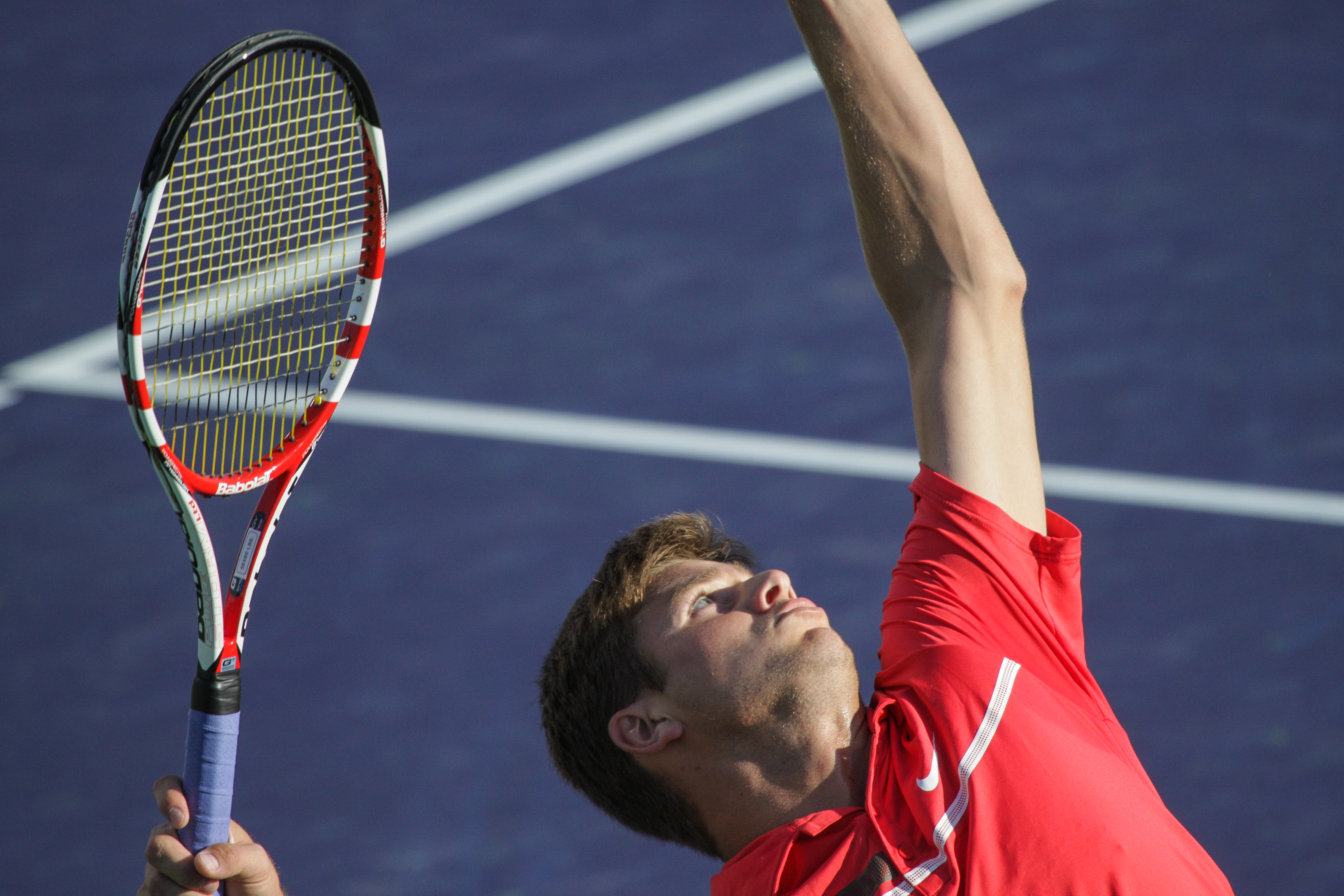 Harrison serving at the 2012 BNP Paribas Open.